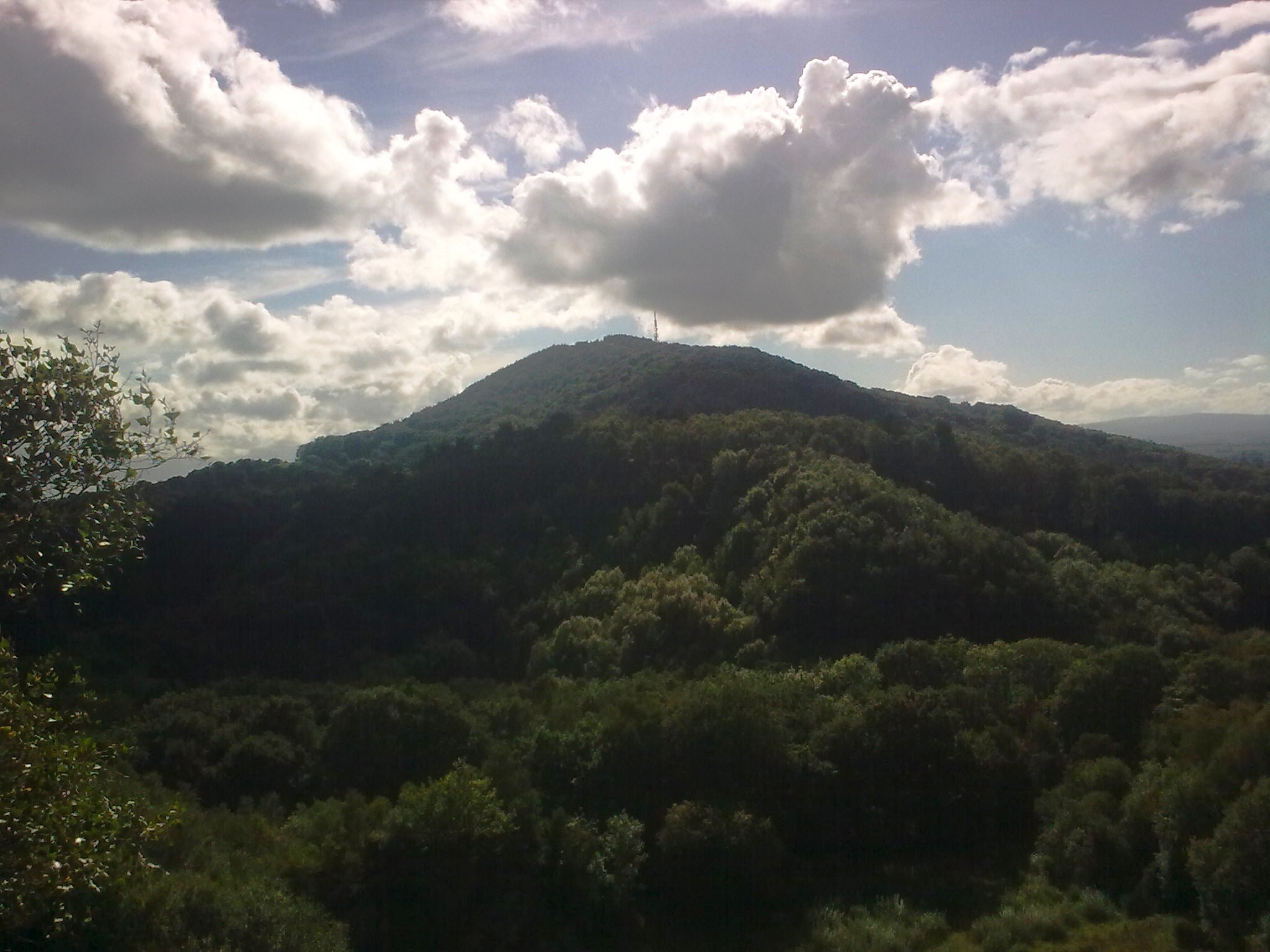 A photograph of The Wrekin from the Ercall Hill Quarry. It is a landscape photograph. Wrekin Terrane The Wrekin from the Ercall